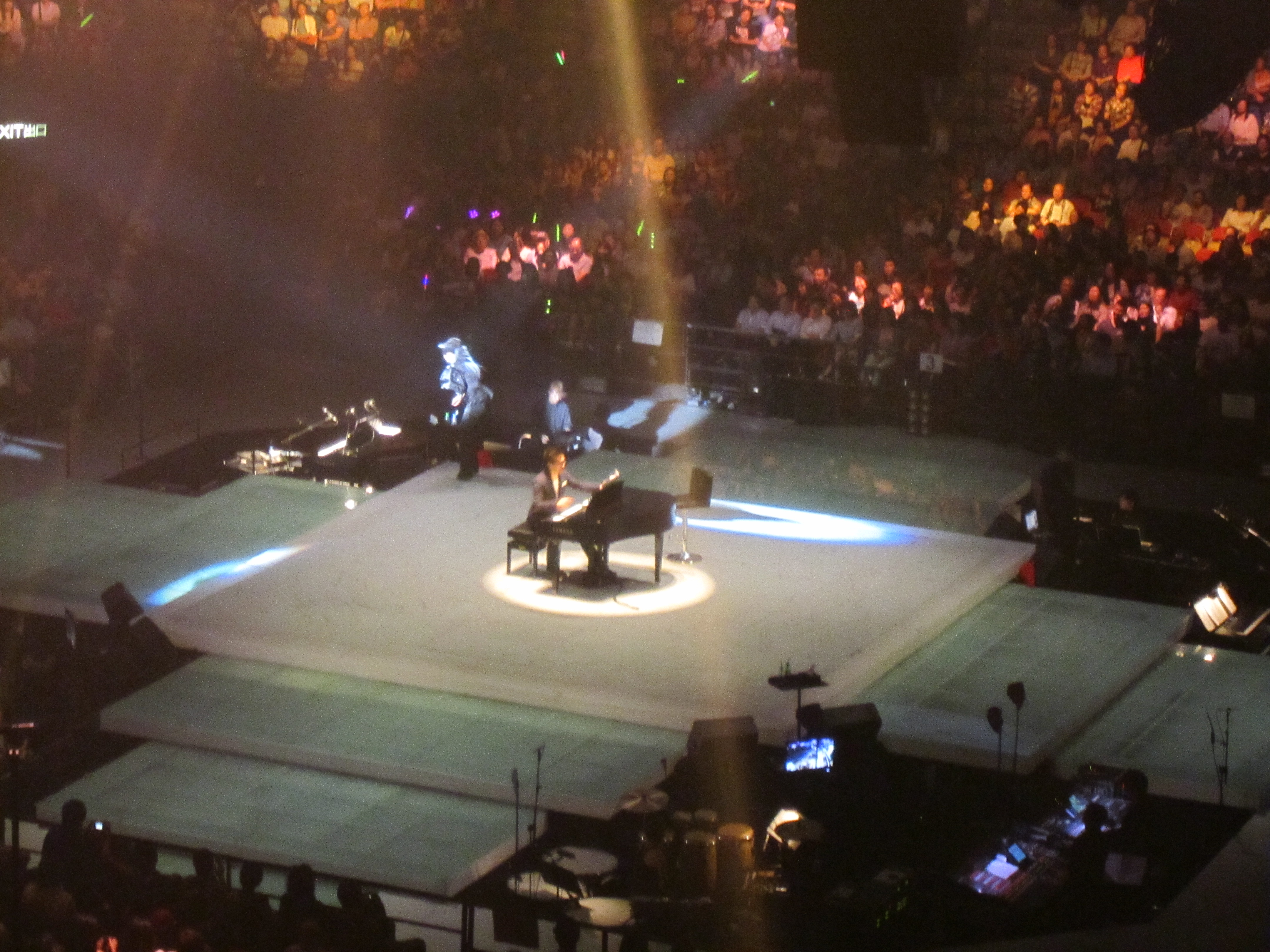 Chiu Tsang Hei in Sally Yeh's concert 2012